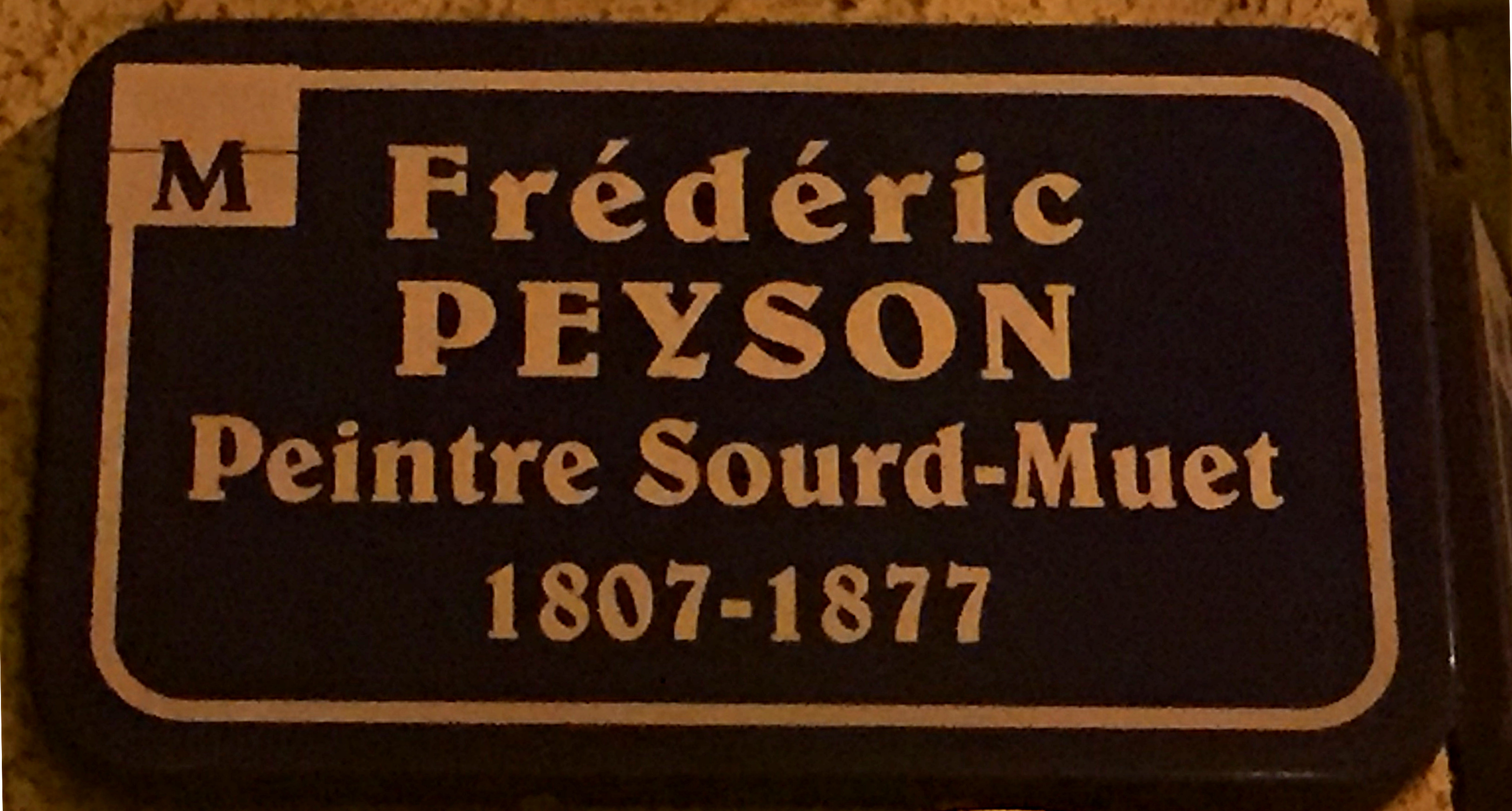 Street plate of Frederic Peyson. Montpellier (Hérault)